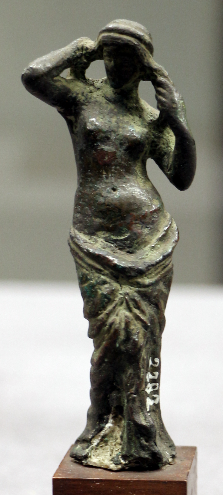 Ancient Roman bronze statuettes in the Museo archeologico nazionale (Florence)